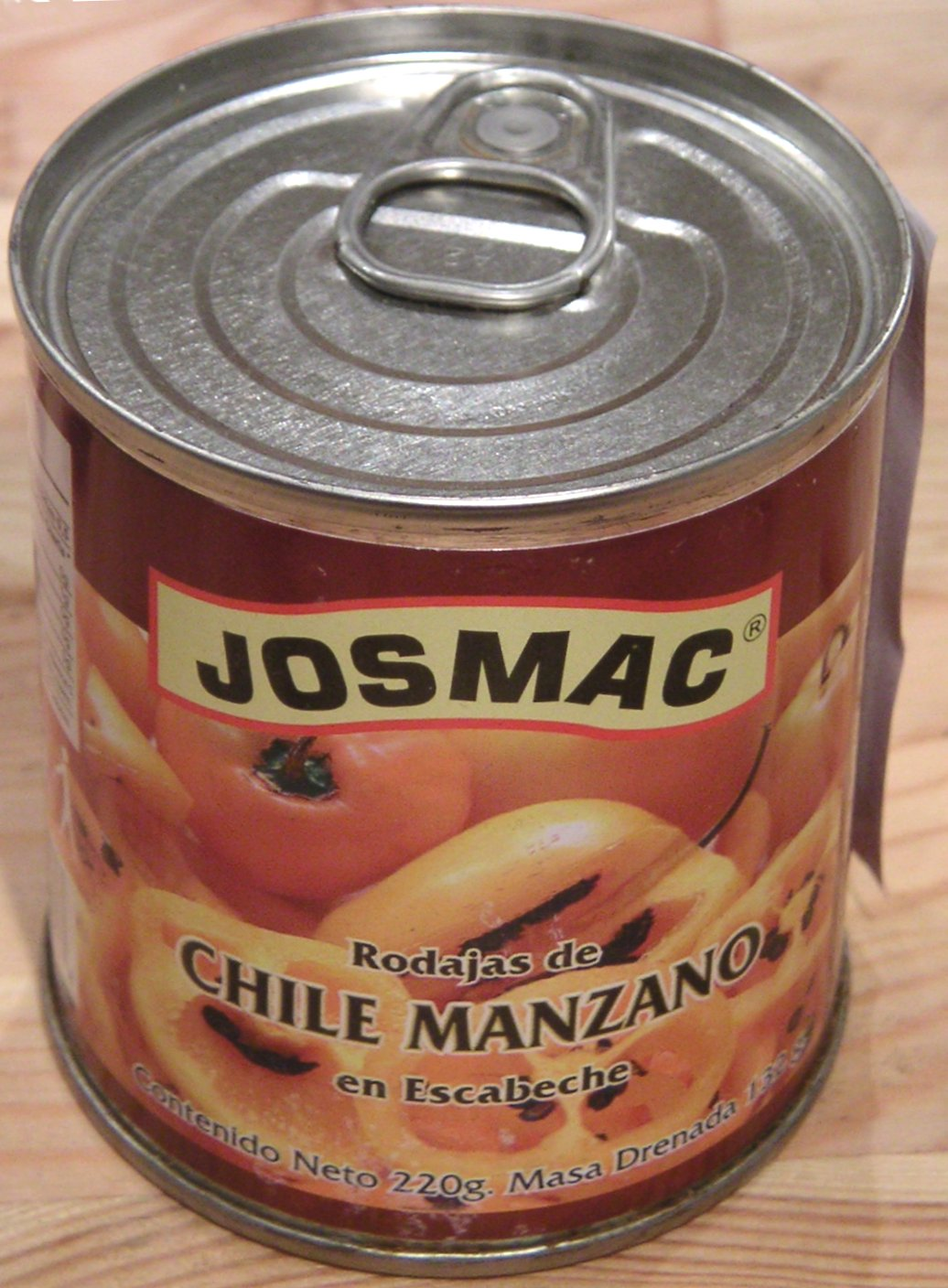 Canned Chile Manzano, bought in a mexican supermarket. Photograph and slight reworking by Carstor